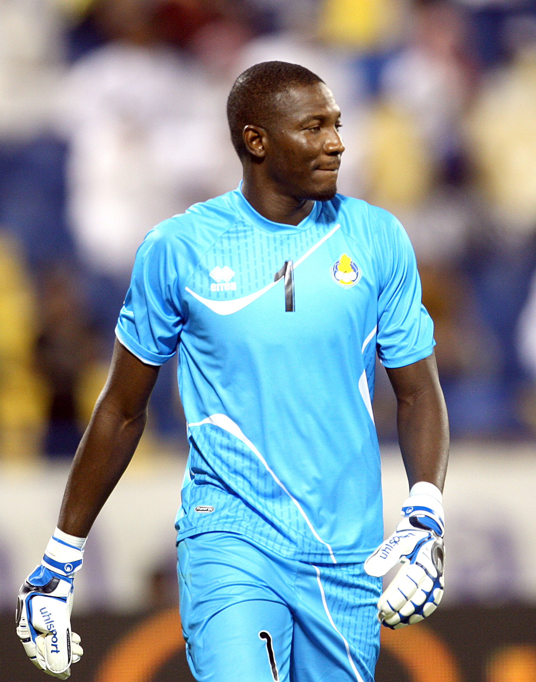 Al Gharafa's Qasim Burhan during the match against Qatar Sports Club in the Qatar Stars League.